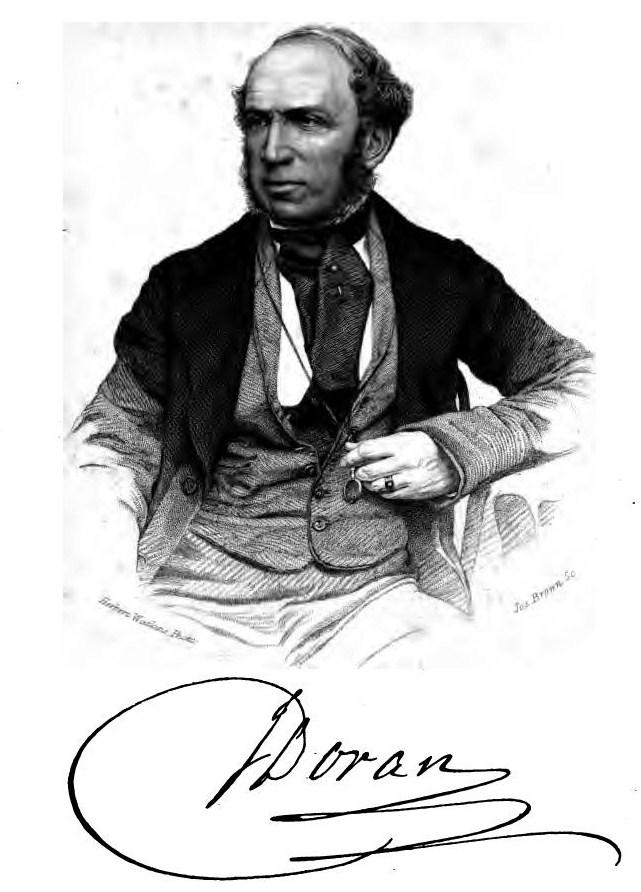 Portrait of John Doran (1807–1878), English writer.